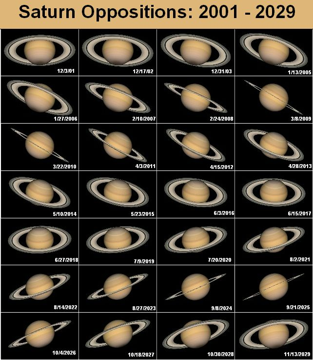 This sequence of simulated views demonstrates the 29.5-year orbital period of Saturn by opposition date, as well as the dramatic changes in the orientation of the planet's ring disk. The ring system revolves around a fixed axis, so both sides of the ring disk are visible from Earth during each period in which Saturn orbits the Sun. (Note: If viewed with a parallel view stereo technique, this set of images provides a pretty plastic 3D effect to the viewer.) Reference Meeus, Jean (1988) Astronomical Formulae for Calculators (4th ed.), Willmann-Bell External sources Opposition dates of Saturn: 1950-2099 Saturn flat map: 1800x900 pixel JPG[dead link] Saturn ring maps[dead link] Cool simulated images for Saturn from various views[dead link]